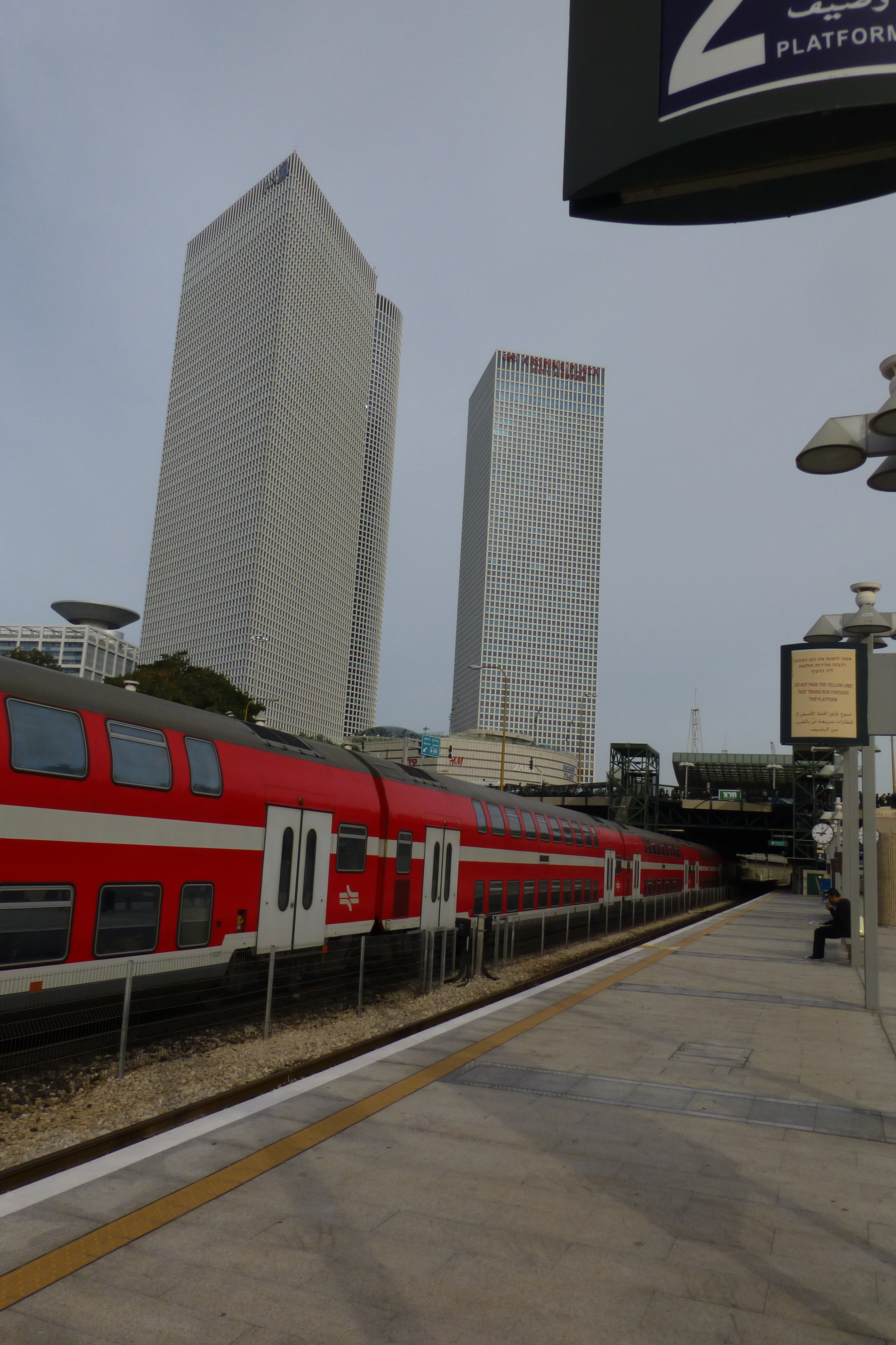 Tel Aviv HaShalom train station